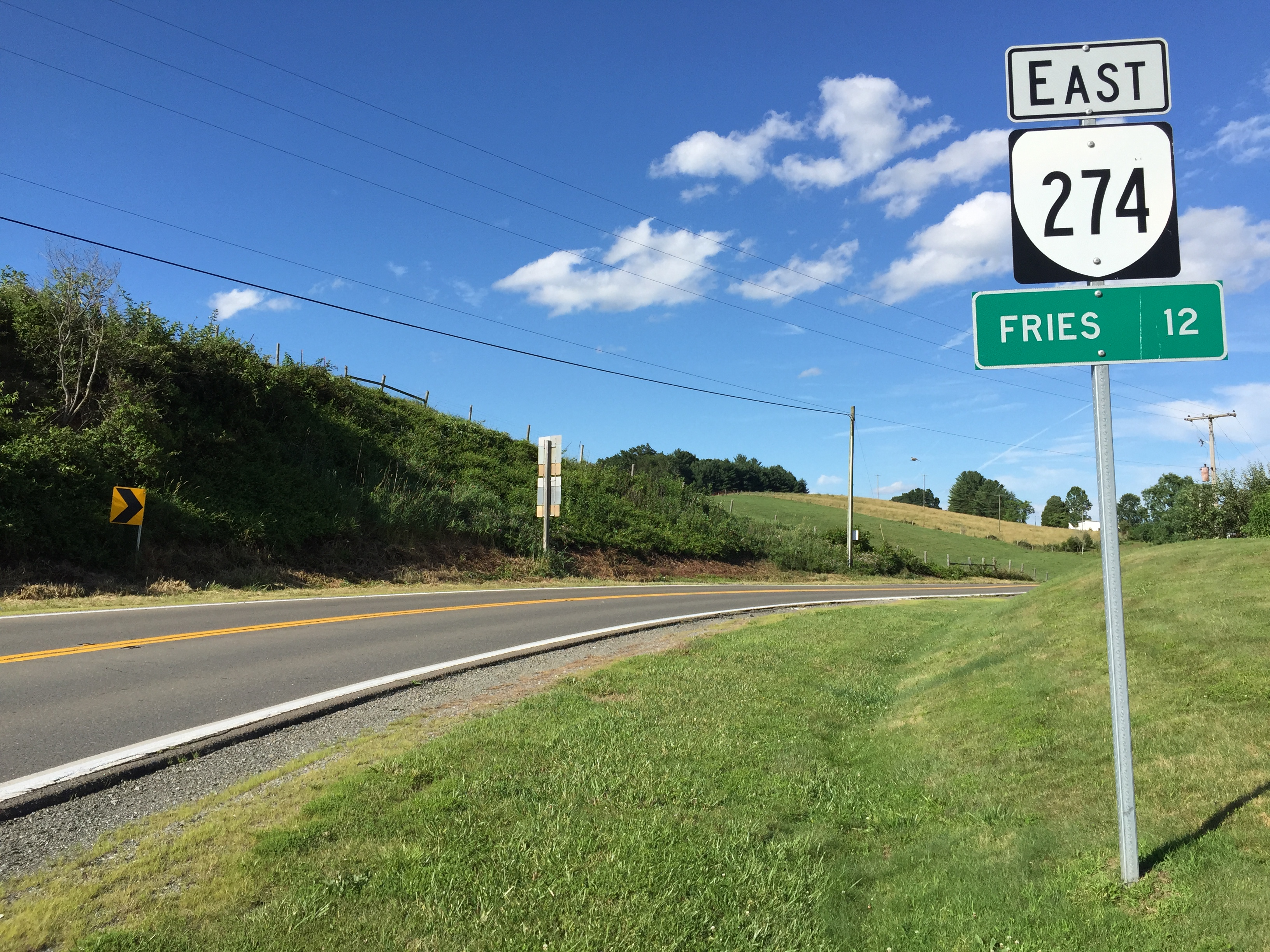 View east along Virginia State Route 274 (Riverside Drive) just east of U.S. Route 58 and U.S. Route 221 (Grayson Parkway) in eastern Grayson County, Virginia